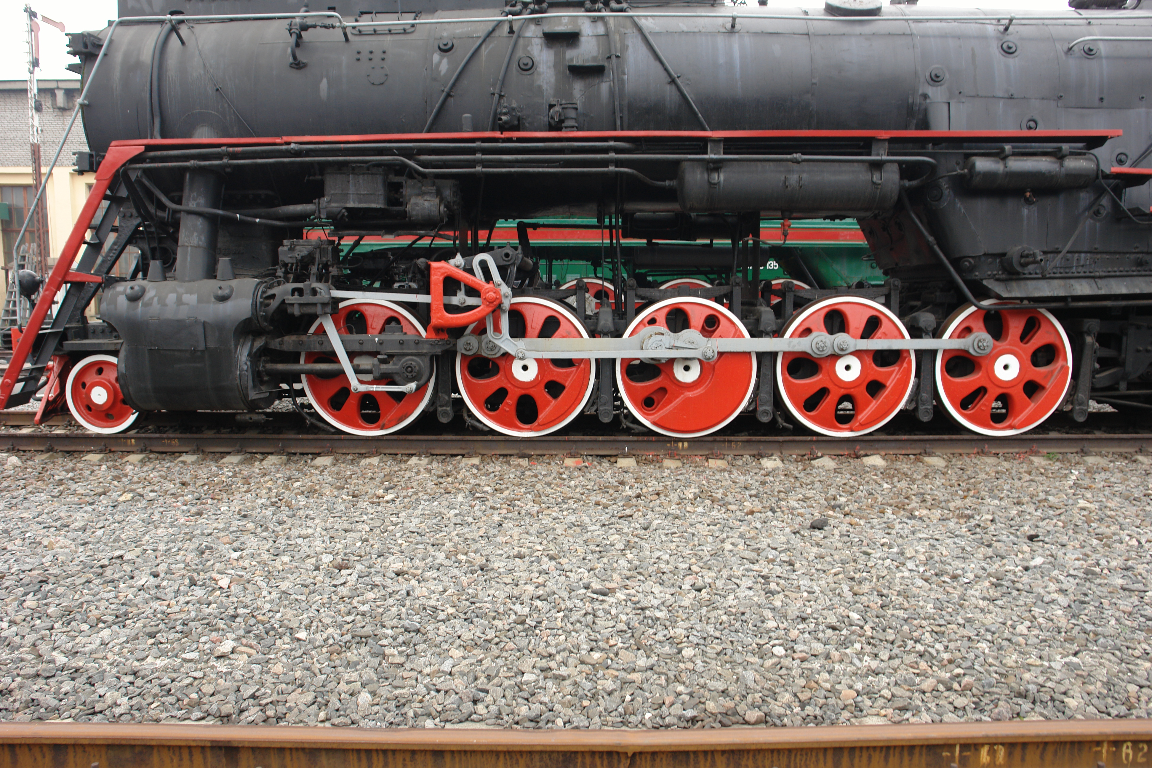 Cargo locomotive OF LVY8-002 (ORY8-002) Weight steam in working order:without tender12 tonsstenderom130 tonnesKonstruktsionnaya speed80 km / h.maximum power at the rim of the wheel2600 PS Built in the Voroshilovgradskim Parovozostroitelnym factory. The October Revolution of 1953. Served at Moskovsko-Ryazanskoy and Northern Iron roads until 1982. Ispolzovalsya as boiler enterprise "Komiavtostroy." Delivered to the museum in the city of Syktyvkar, in 1996. Railway Technology Museum, St. Petersburg